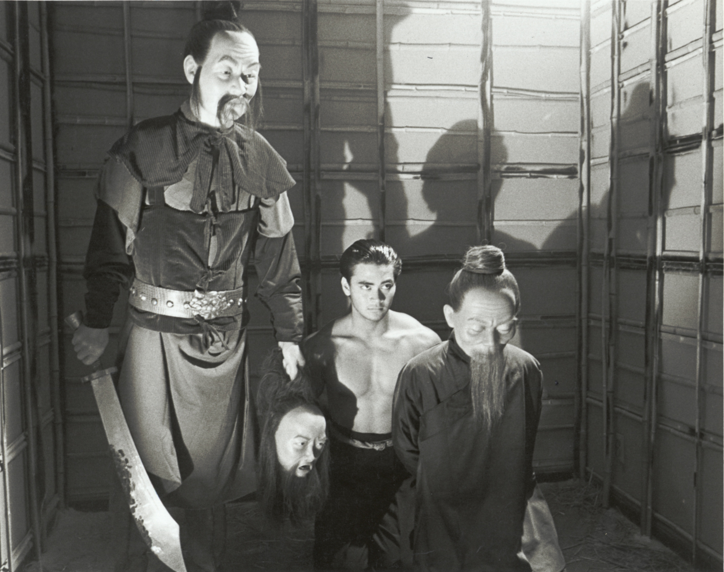 Actor Mark Dacascos in Dim Sum, an early indie film made in San Francisco, California, 1983. Photo by Nancy Wong. Scene was deleted in final film.